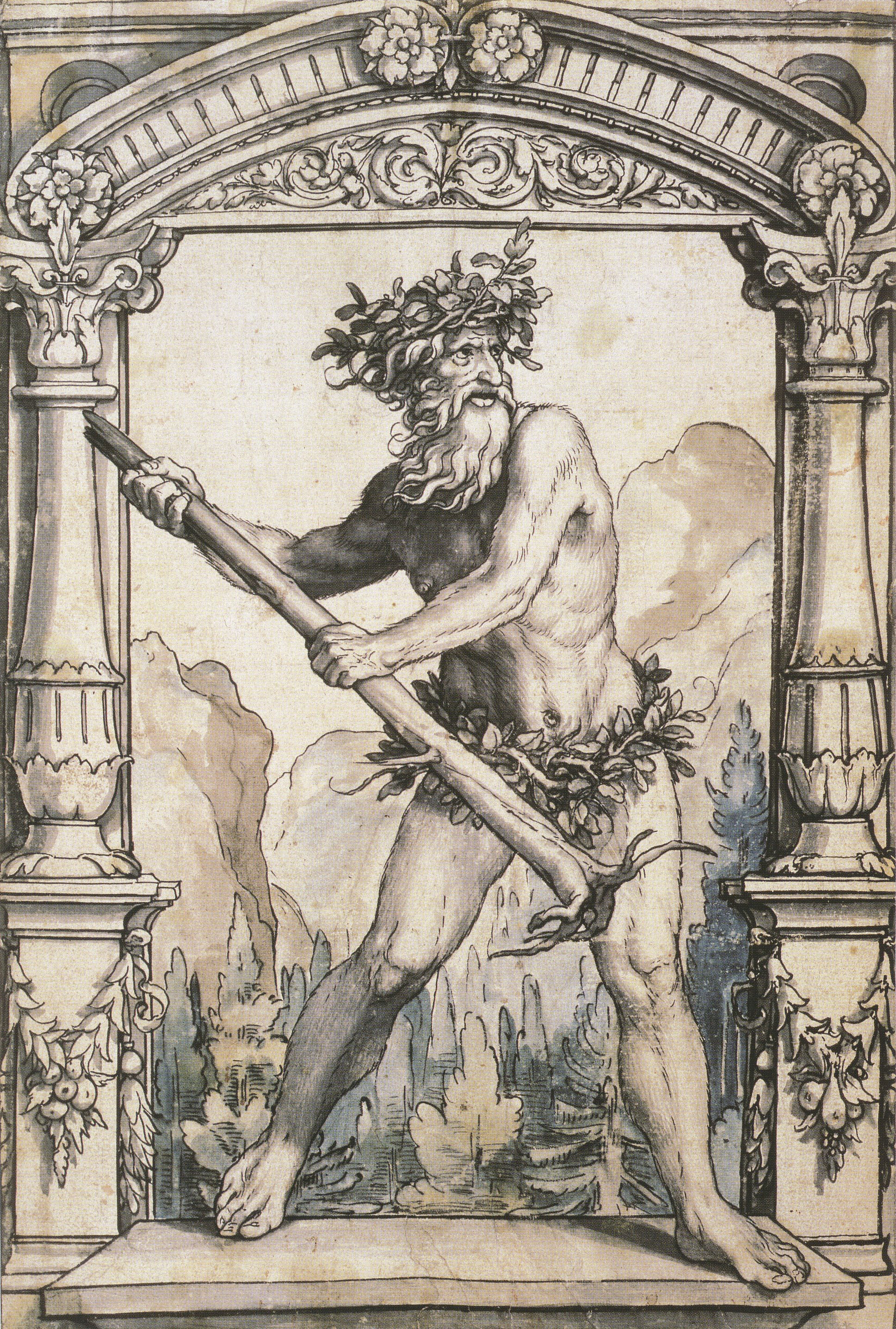 Design for a Stained Glass Window with Wild Man. Pen and ink and brush, grey, green, and brown washes, 32.1 × 21.5 cm, British Museum. The accepted attribution of this drawing to Holbein has been challenged by the art historian Christian Müller (Müller, 362). He cites the overall conception and individual details as grounds for his doubt, perceiving "an awkwardness that is out of character for Holbein". He concludes that this drawing is a workshop copy of a lost original, perhaps executed in Basel while Holbein was in London. The tradition of the Wild Man is still alive in the January processions of three honour societies in Basel. Holbein may have designed the window for the premises of one of these honour societies, "Zur Hären", whose members were hunters and fishermen and whose emblem was the Wild Man.